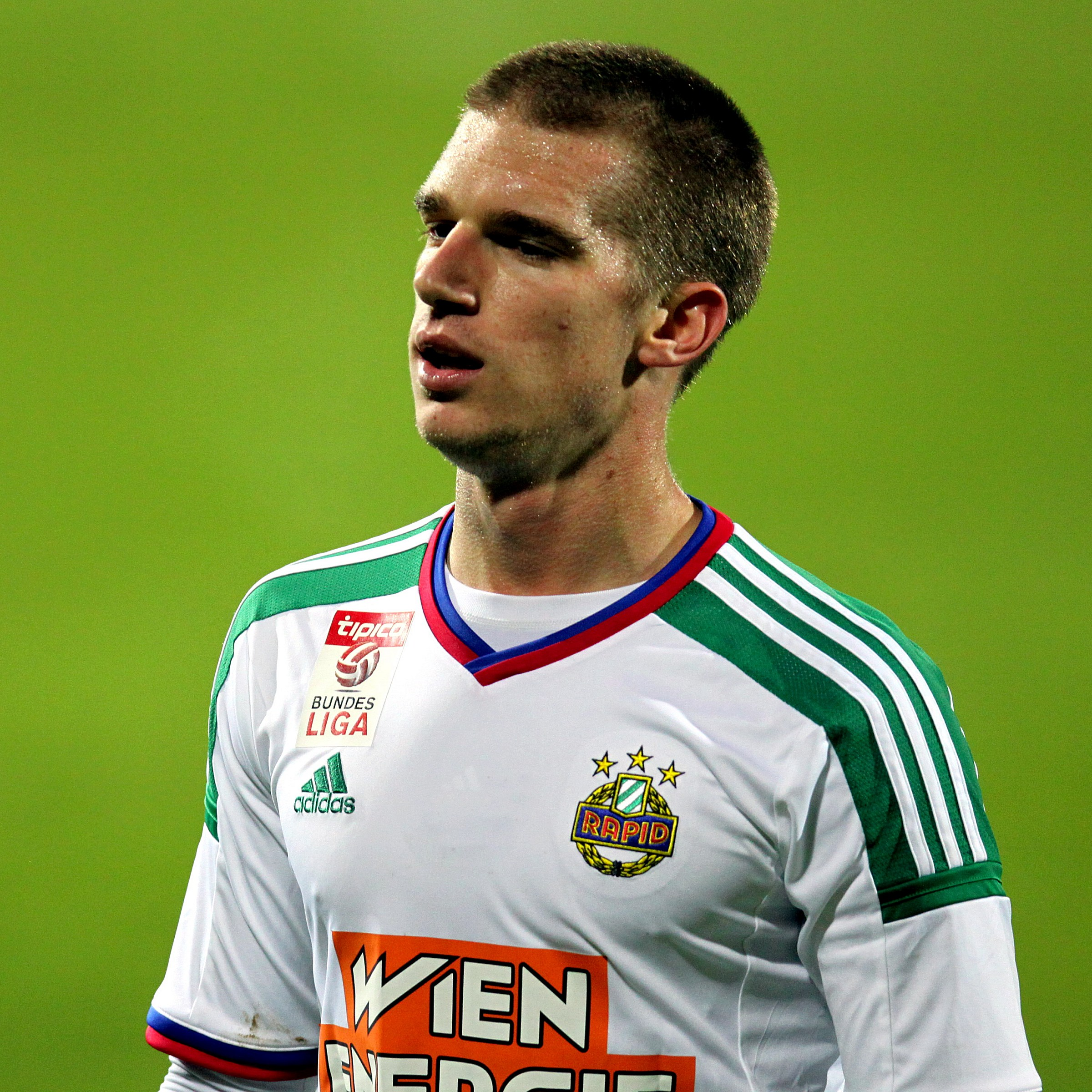 Match of the Austrian Football Bundesliga – SV Mattersburg (green shirts) vs. SK Rapid Wien (white shirts) 1-6 (0-5) at 2015-11-21 in Pappelstadion, Mattersburg – The photo shows Srđan Grahovac.